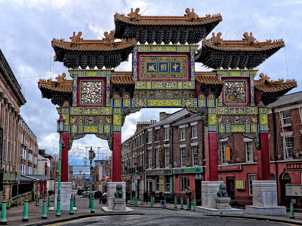 Chinatown Gate Liverpool UK